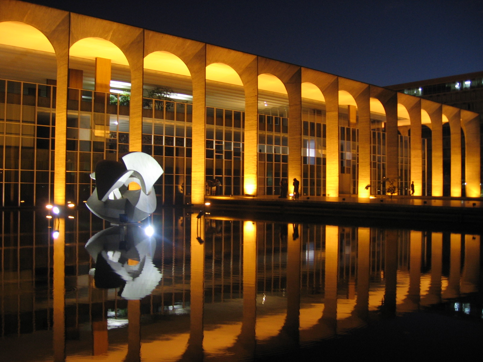 Night view of the Itamaraty Palace (headquarters of the Ministry of External Relations), in Brasilia, with the 'Meteoro' sculpture by Bruno Giorgi.